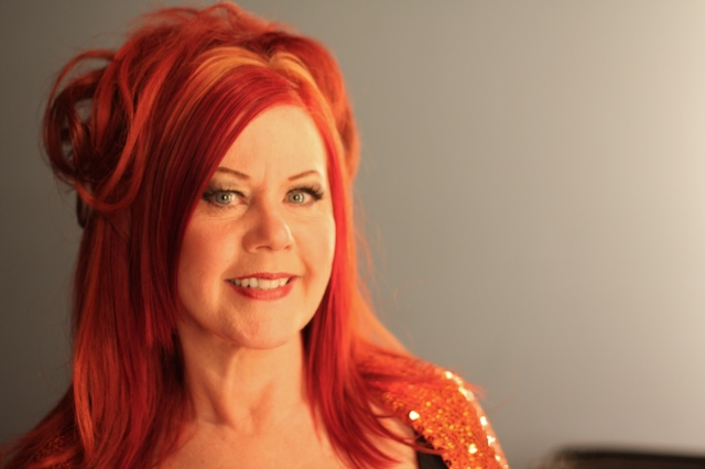 The B-52's vocalist and keyboardist Kate Pierson